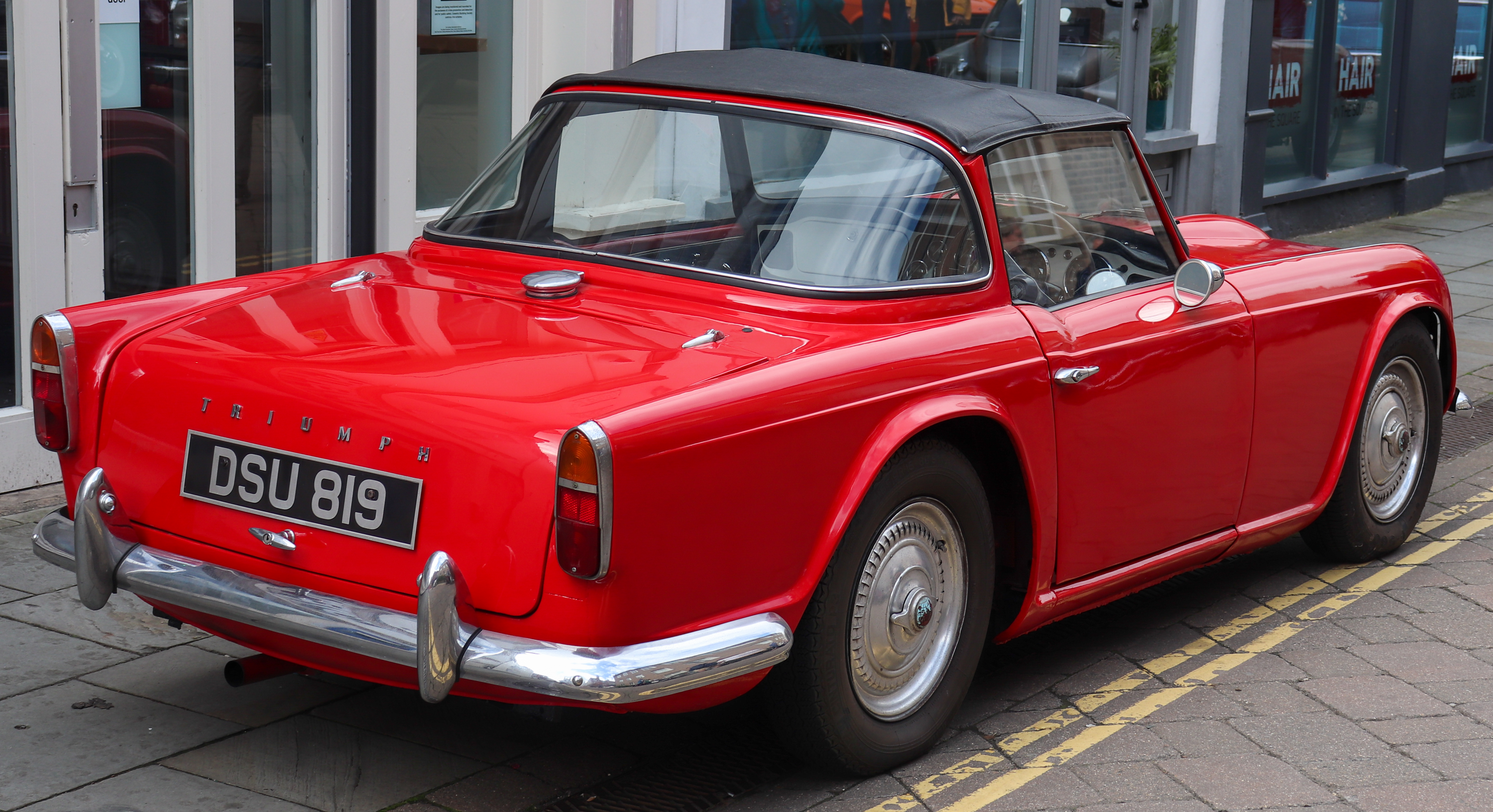 1962 Triumph TR4 2.1 Rear Taken at the 2019 Warwick Classic Car Show